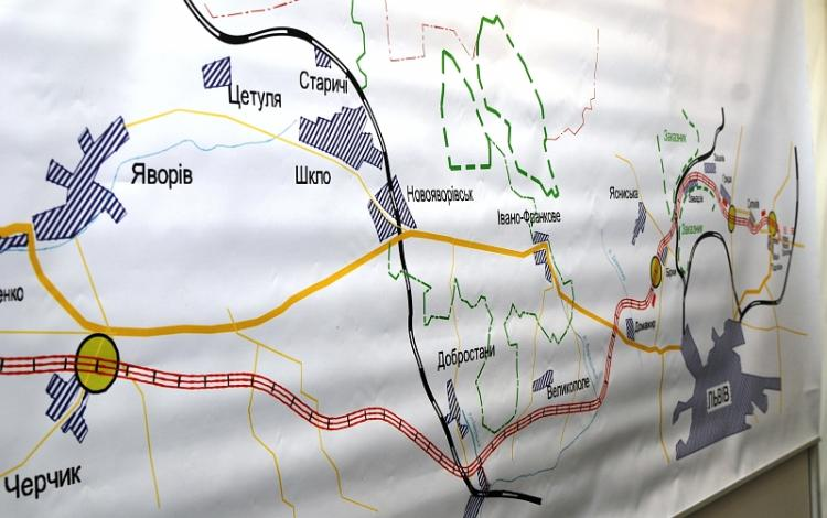 Presentation of M10 motorway route during the meeting of deputy prime ministers Waldemar Pawlak and Borys Kolesnikow on 28 October 2010